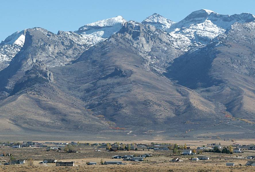 Spring Creek in Nevada, looking southeast towards the Ruby Mountains. Ruby Dome visible in the upper right.